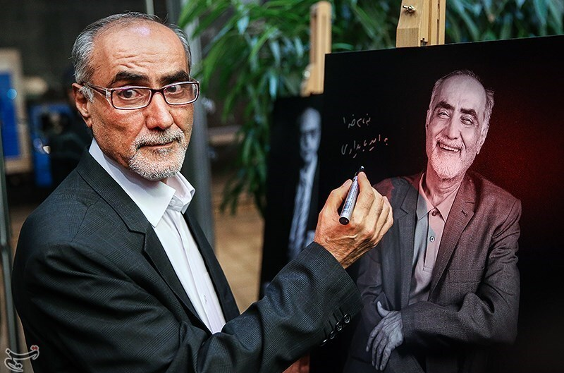 The Celebration of the 18th Iranian Cinema Celebration